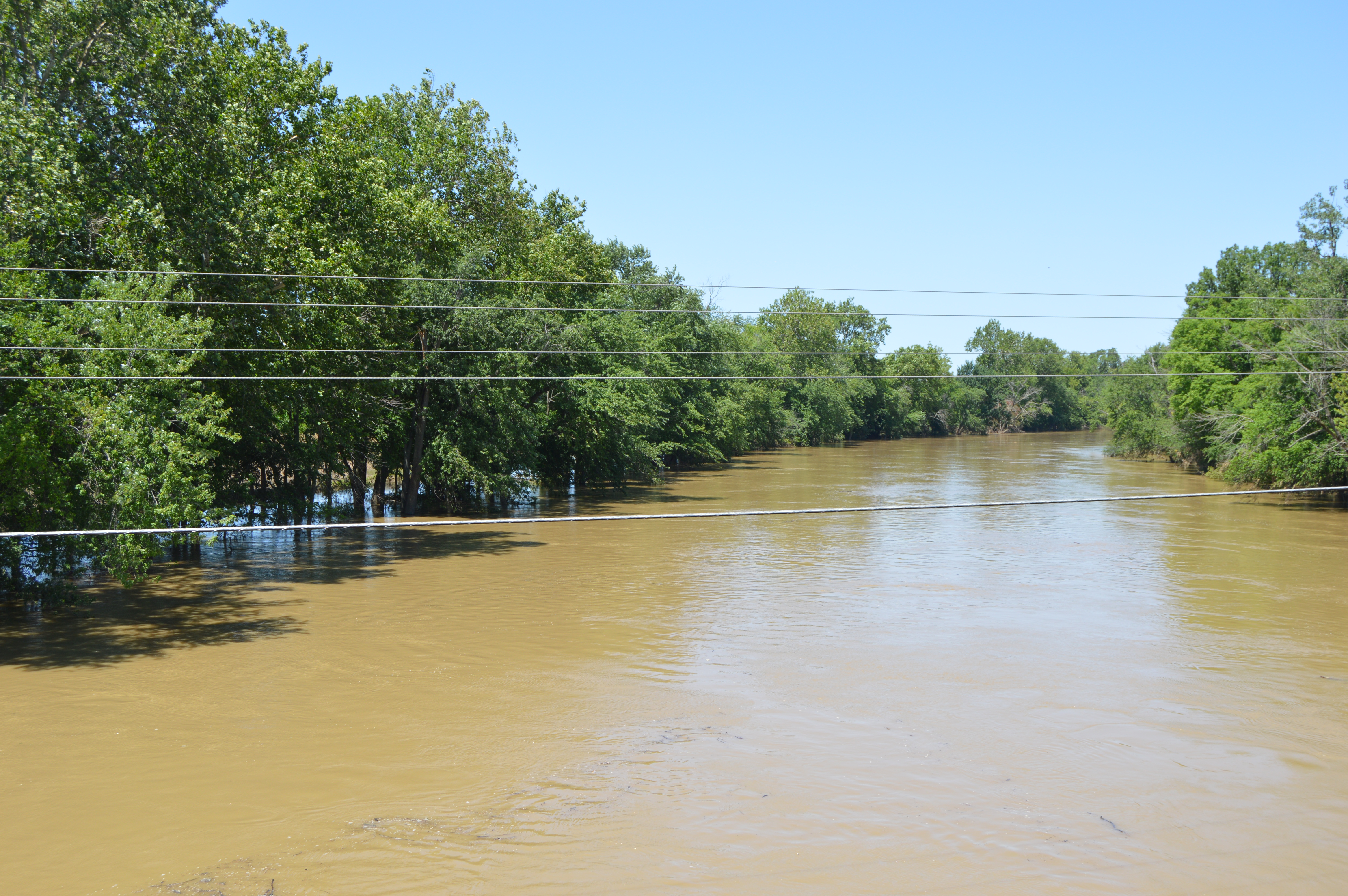 Looking northwest (downstream) along the Auglaize River from the State Route 634 bridge at Dupont, Ohio, United States. The water is exceptionally high following weeks of heavy rain in the region.